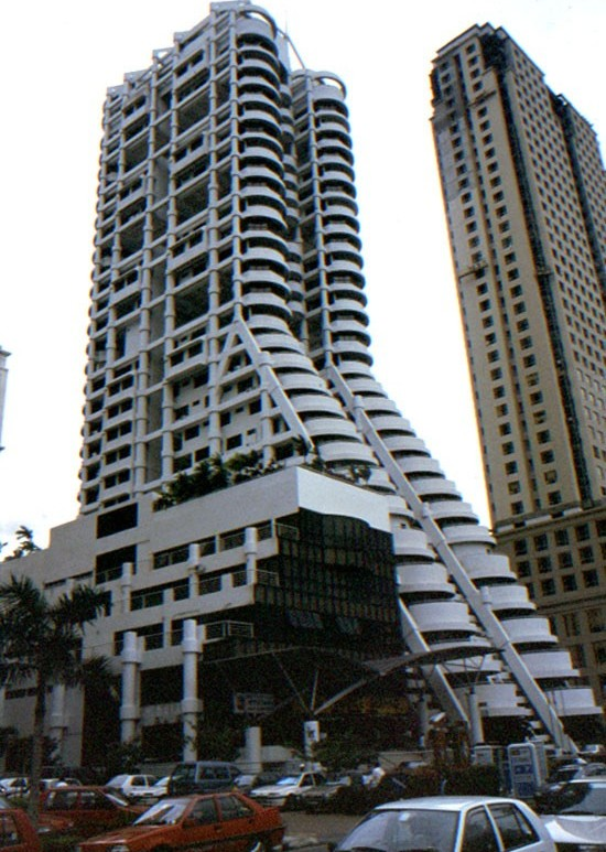 MBf Tower, located at Northam Road in the city of George Town in Penang, is one of the tallest commercial skyscrapers within the city centre.